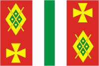 Krasnoselskoe (Krasnodar krai), flag